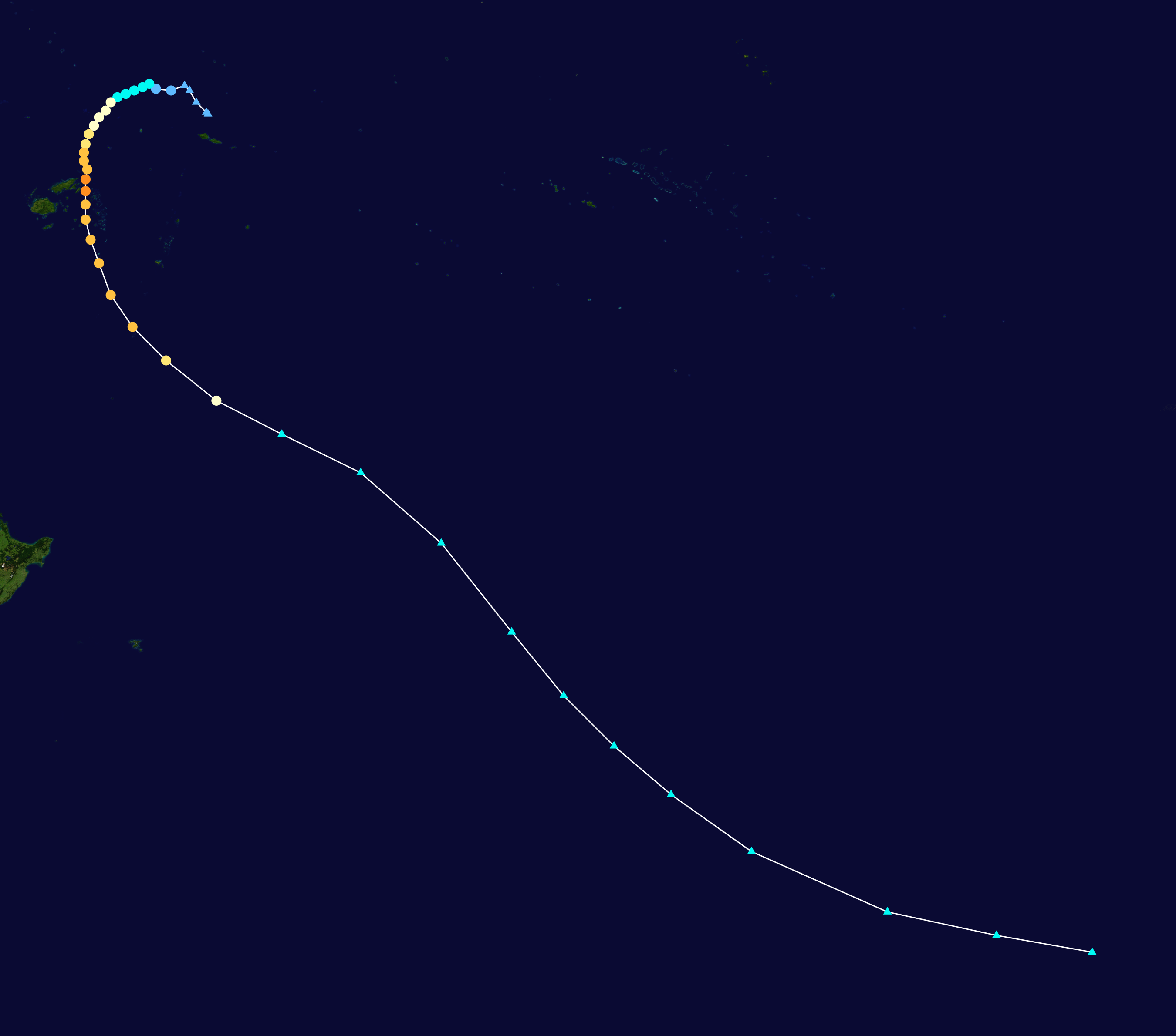 Track map of Severe Tropical Cyclone Tomas of the 2009-10 South Pacific cyclone season. The points show the location of the storm at 6-hour intervals. The colour represents the storm's maximum sustained wind speeds as classified in the Saffir–Simpson scale (see below), and the shape of the data points represent the nature of the storm, according to the legend below. Saffir–Simpson scale Tropical depression≤38 mph≤62 km/h Category 3111–129 mph178–208 km/h Tropical storm39–73 mph63–118 km/h Category 4130–156 mph209–251 km/h Category 174–95 mph119–153 km/h Category 5≥157 mph≥252 km/h Category 296–110 mph154–177 km/h Unknown Storm type Tropical cyclone Subtropical cyclone Extratropical cyclone / Remnant low / Tropical disturbance / Monsoon depression